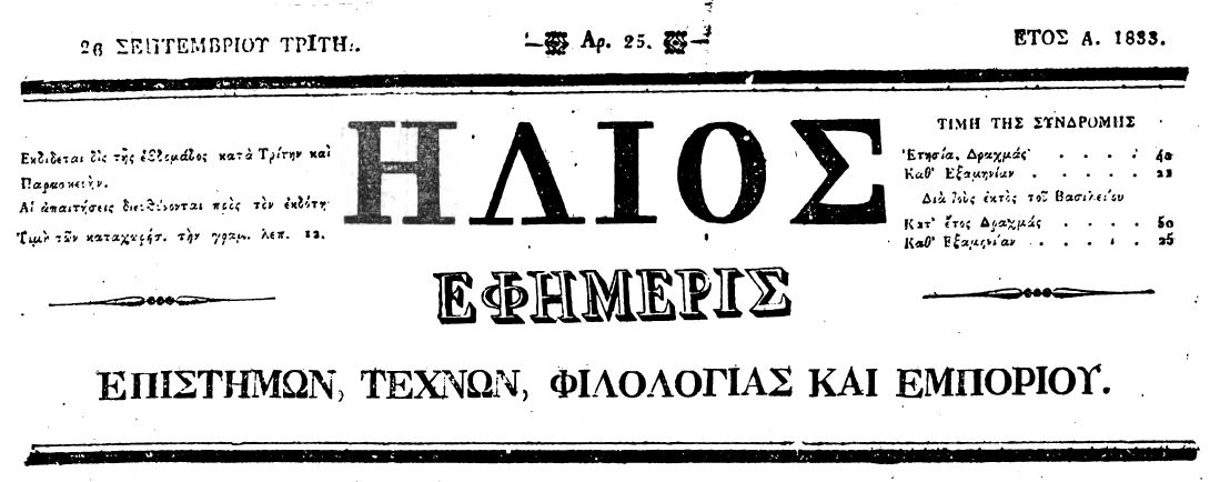 Helios, Scientific, Art, Philological and Commercial Newspaper, issue 25, newspaper title, 26 September 1833